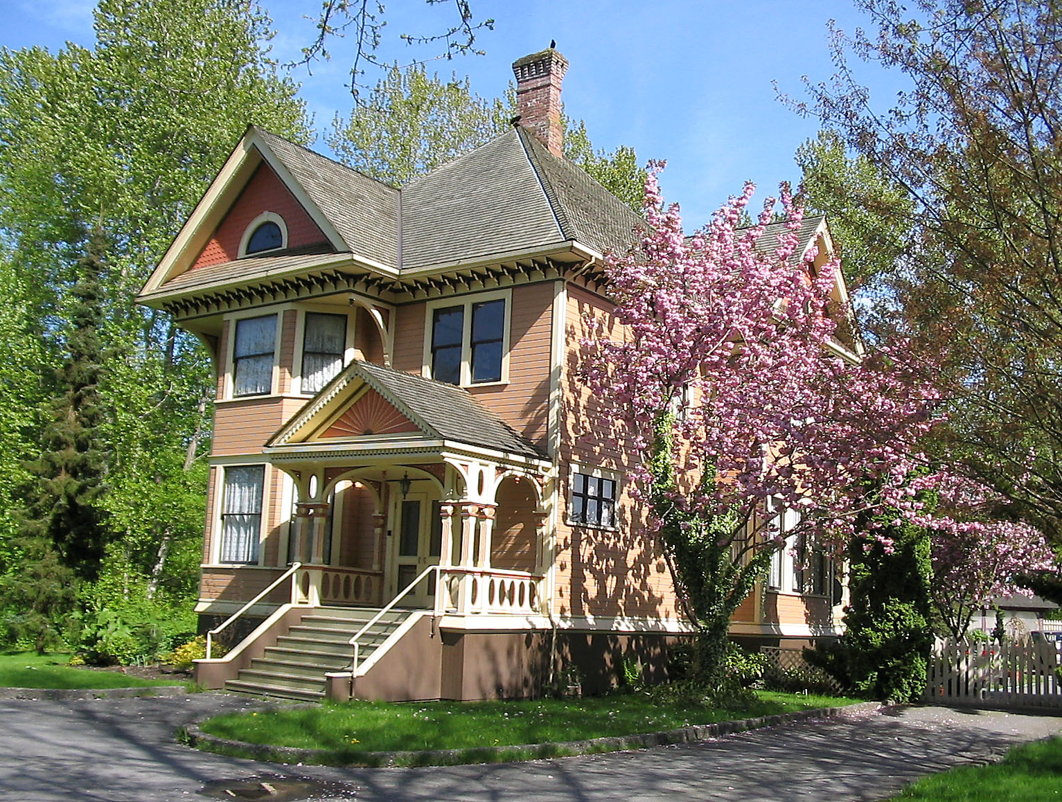 3/4 view of Burrvilla historical house in Deas Island Regional Park, Greater Vancouver Regional District